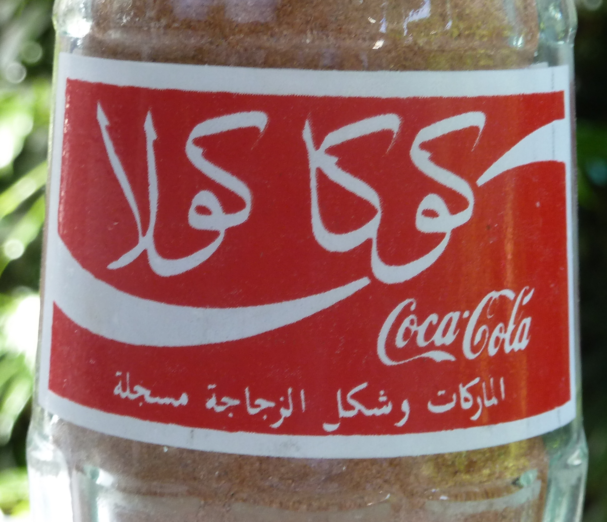 Coca-Cola, label